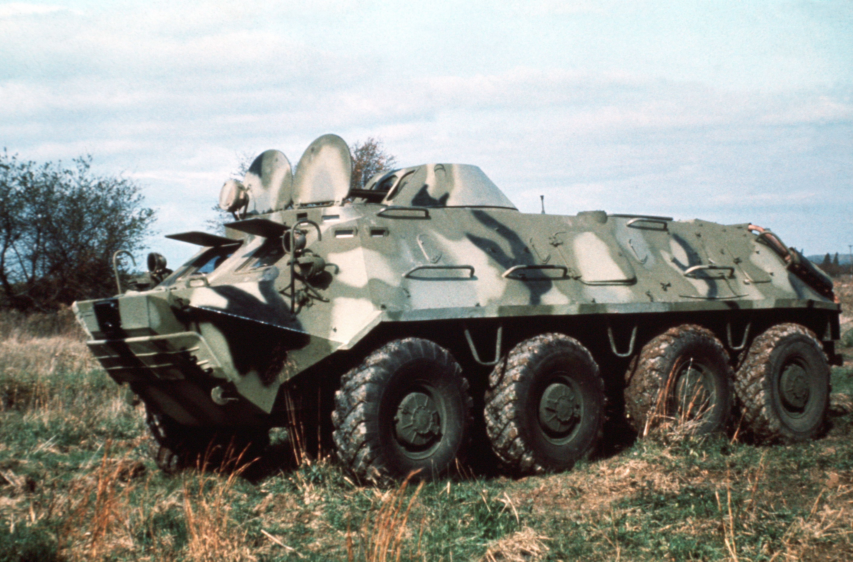 BTR-60PB eight wheeled APC (DD-ST-85-01237)